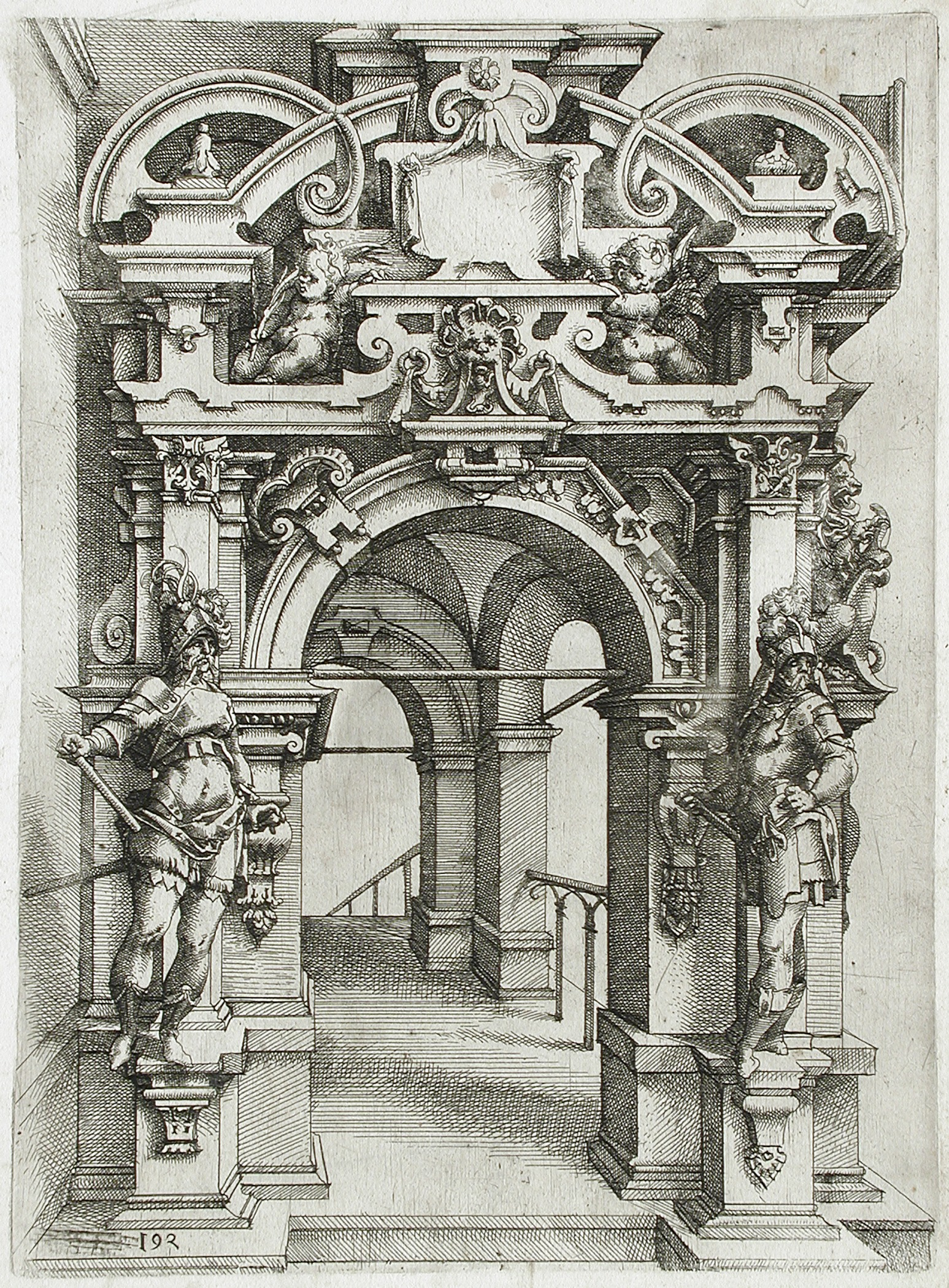 Germany, 1598 Series: Architectural and Ornamental Designs Edition: Third edition Book: Ausztheilung Symmetria und Proportion der Funff Seulen und aller darausz volgender Kunst Arbeit von Fenstern Caminen Thurgerichten Portalen Bronnen und Epitaphien (Nuremburg: Caymox: 1598), pl. 192 Prints; etchings Etching Sheet: 11 1/8 x 7 7/8 in. (28.26 x 20 cm); image: 9 7/8 x 7 3/16 in. (25.08 x 18.26 cm) Mary Stansbury Ruiz Bequest (M.88.91.265) Prints and Drawings